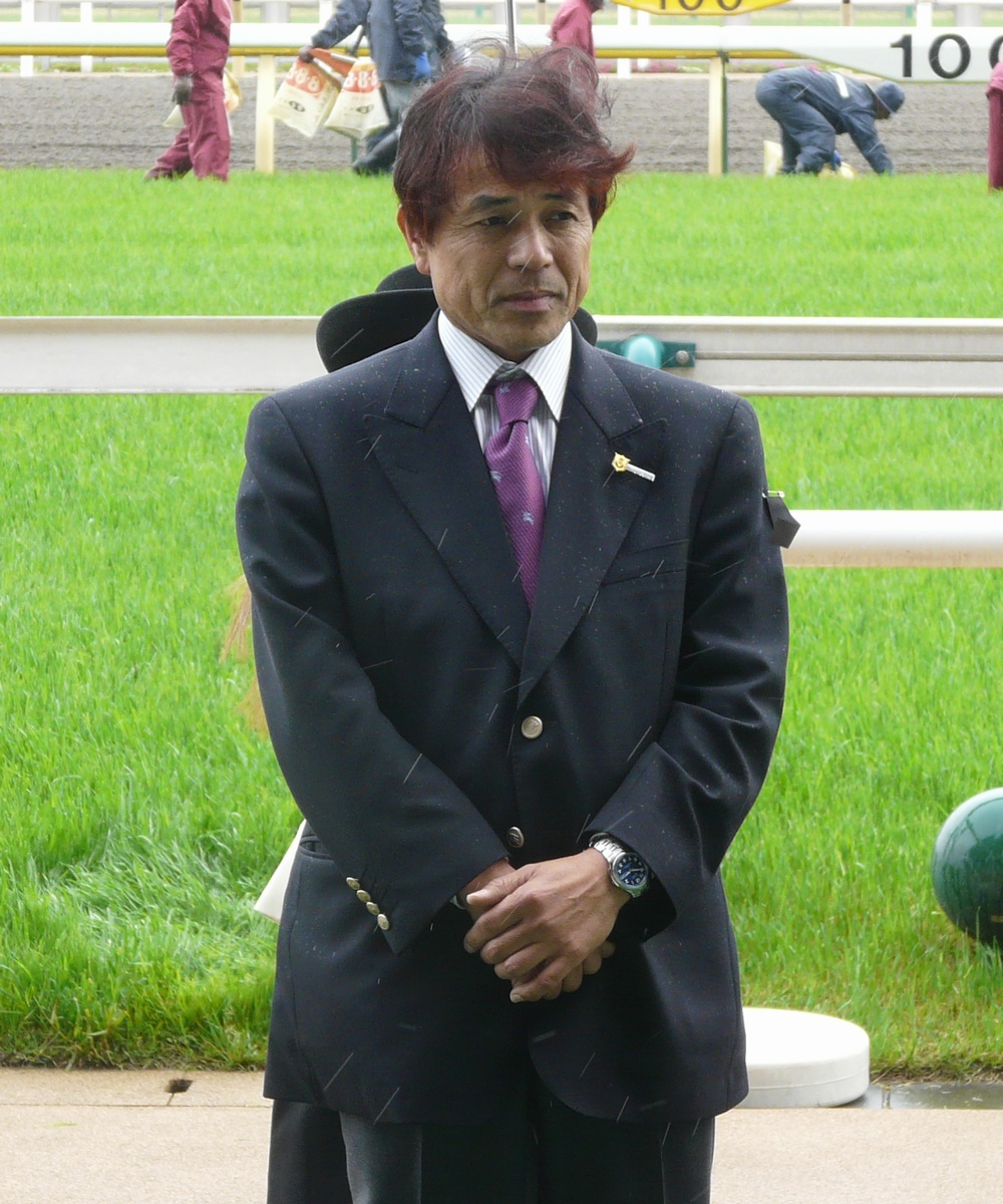 Sakae-Kunieda20110423